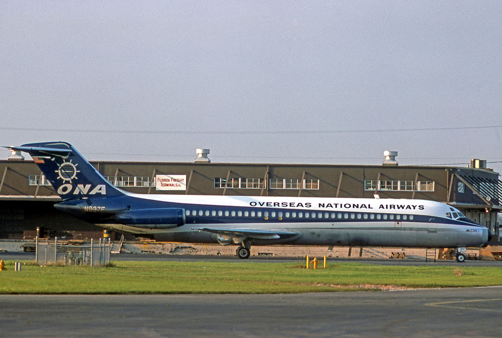 Douglas DC-9-33CF N937F of Overseas National Airways at Miami Airport in 1976